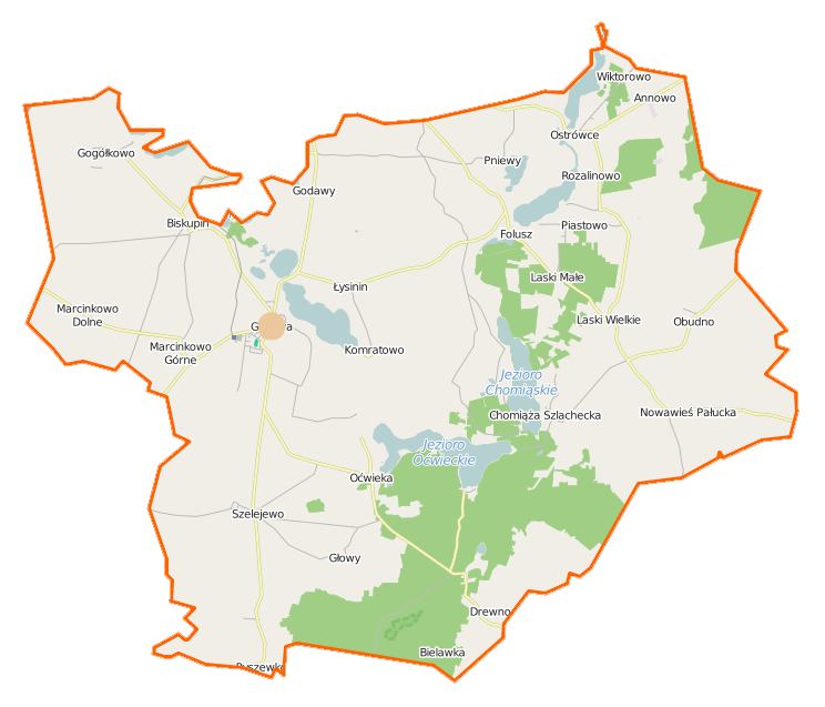 Map of Gmina Gąsawa, Poland This map of Gąsawa (gmina) was created from OpenStreetMap project data, collected by the community. This map may be incomplete, and may contain errors. Don't rely solely on it for navigation. Border coordinates52.829717.6719←↕→17.928052.6970